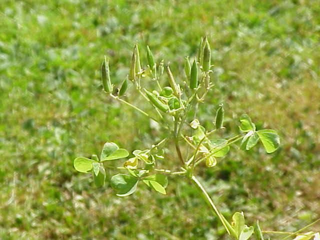 Species: Oxalis stricta Family: Oxalidaceae Image No. 1